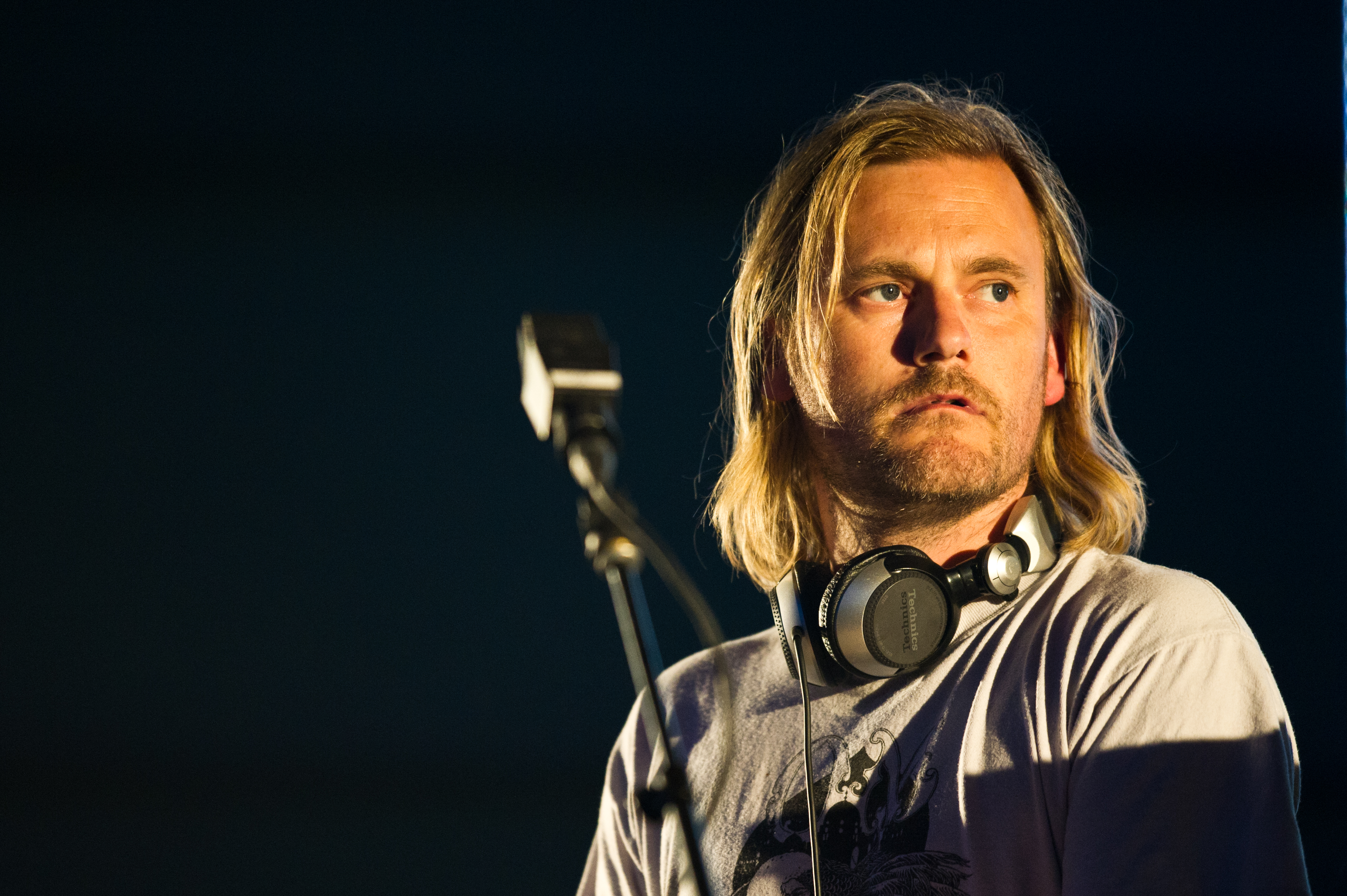 Geoff Barrow performing with Portishead at Roskilde Festival 2011